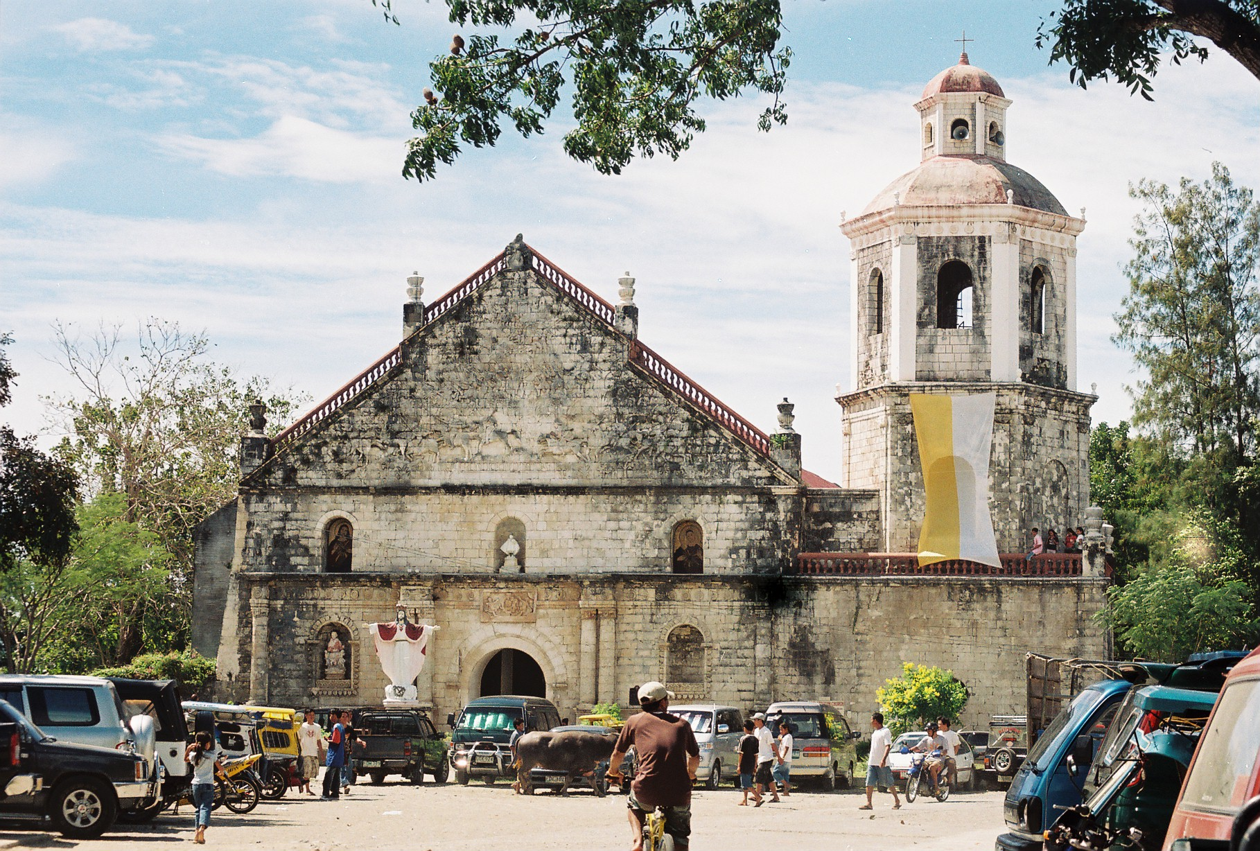 Located in San Joaquin town, Iloilo, Philippines